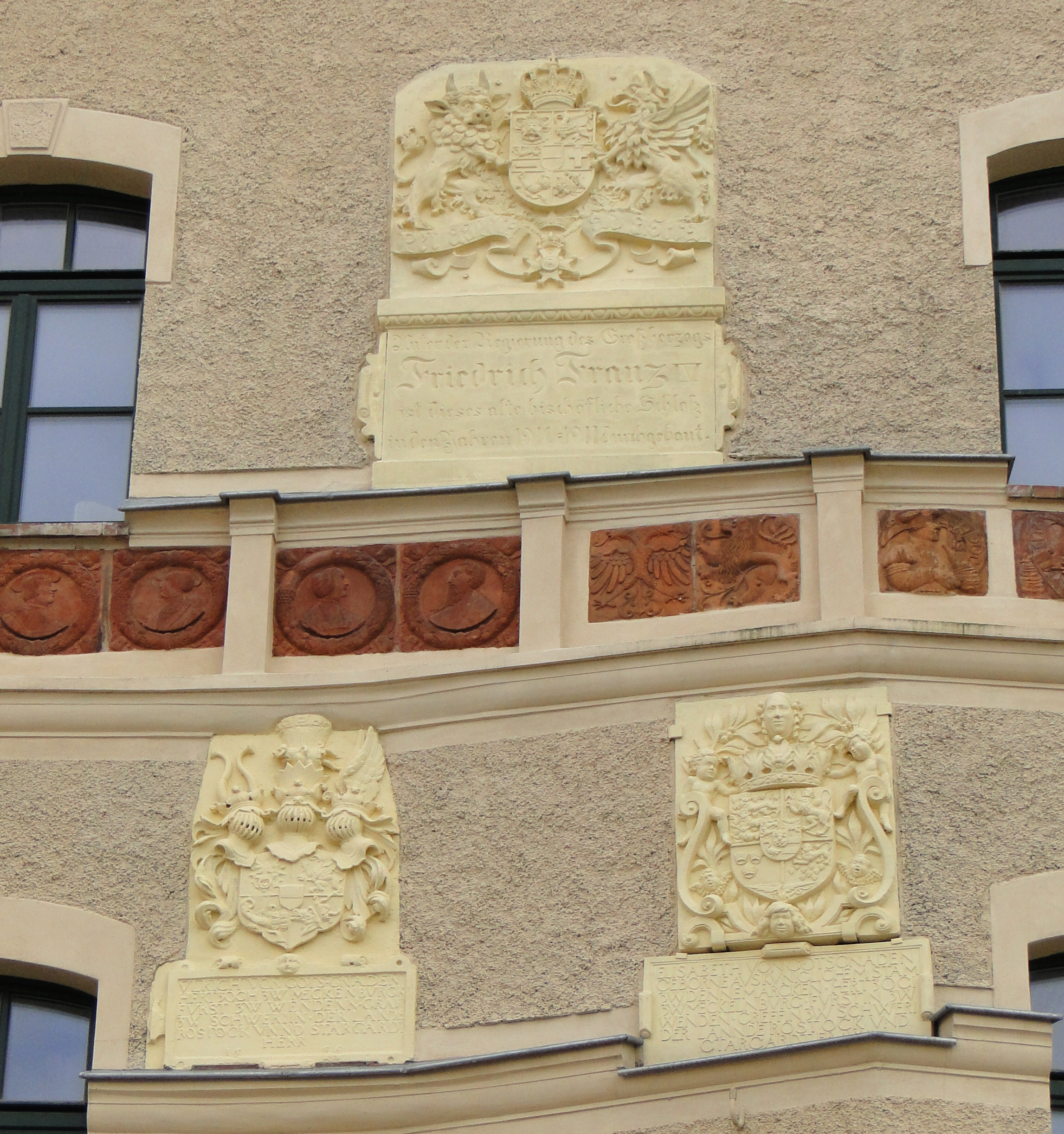 Castle in Bützow, district Rostock, Mecklenburg-Vorpommern, Deutschland